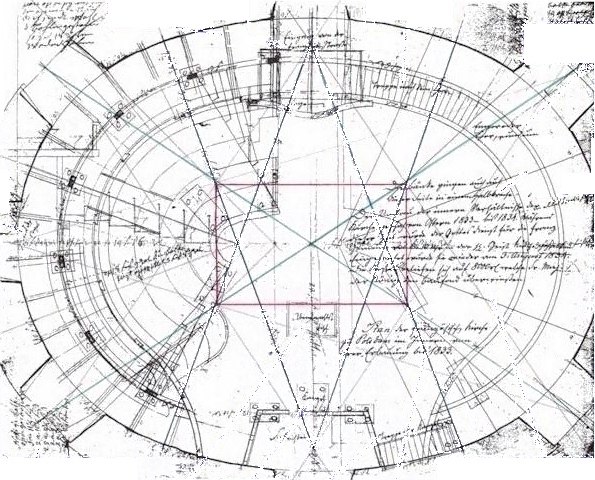 Drawing of the relaunch of the Französische Kirche (French Reformed Church) in Potsdam (FR: Temple de Potsdam) in 1833_34